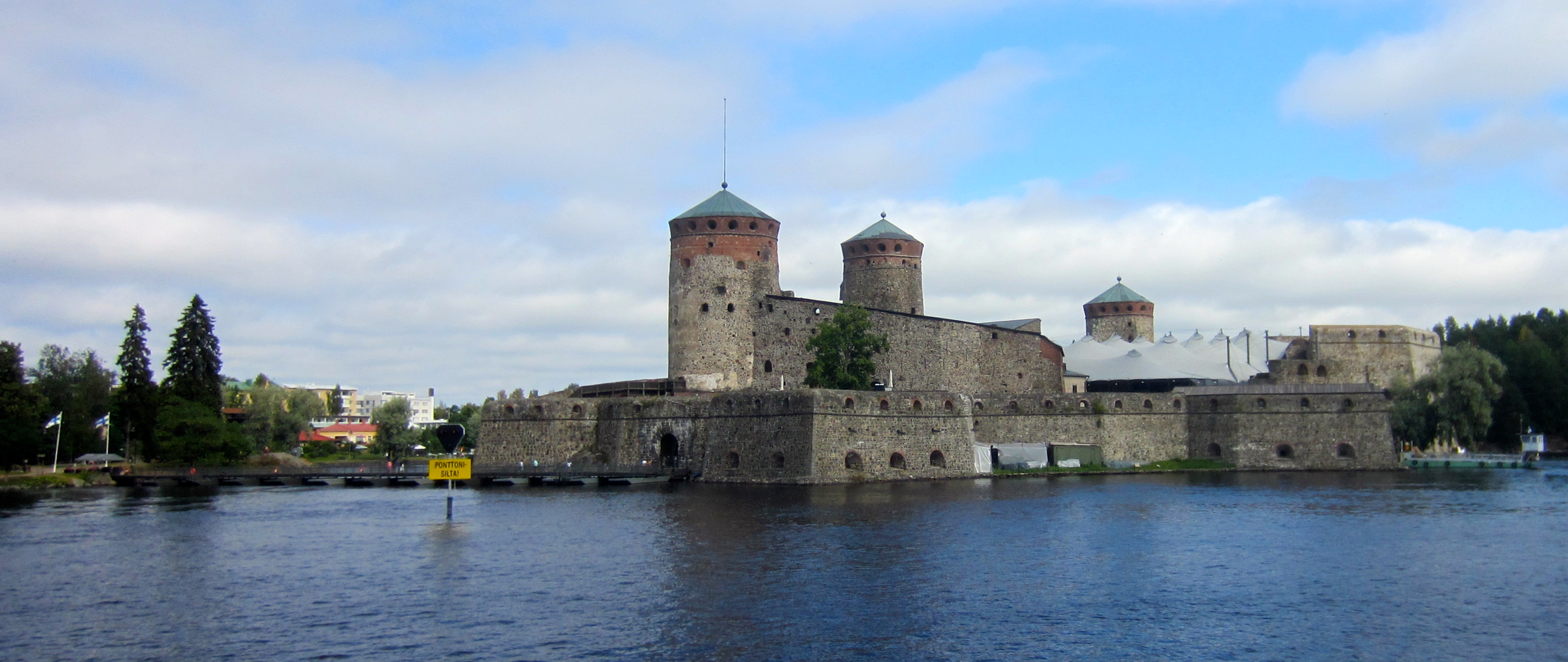 Olofsborg from the seaside